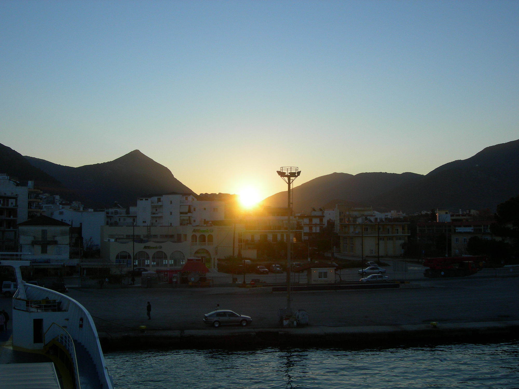 Winter sunrise over Igumenitsa, Greece Зимен изгрев над Игуменица, Гърция